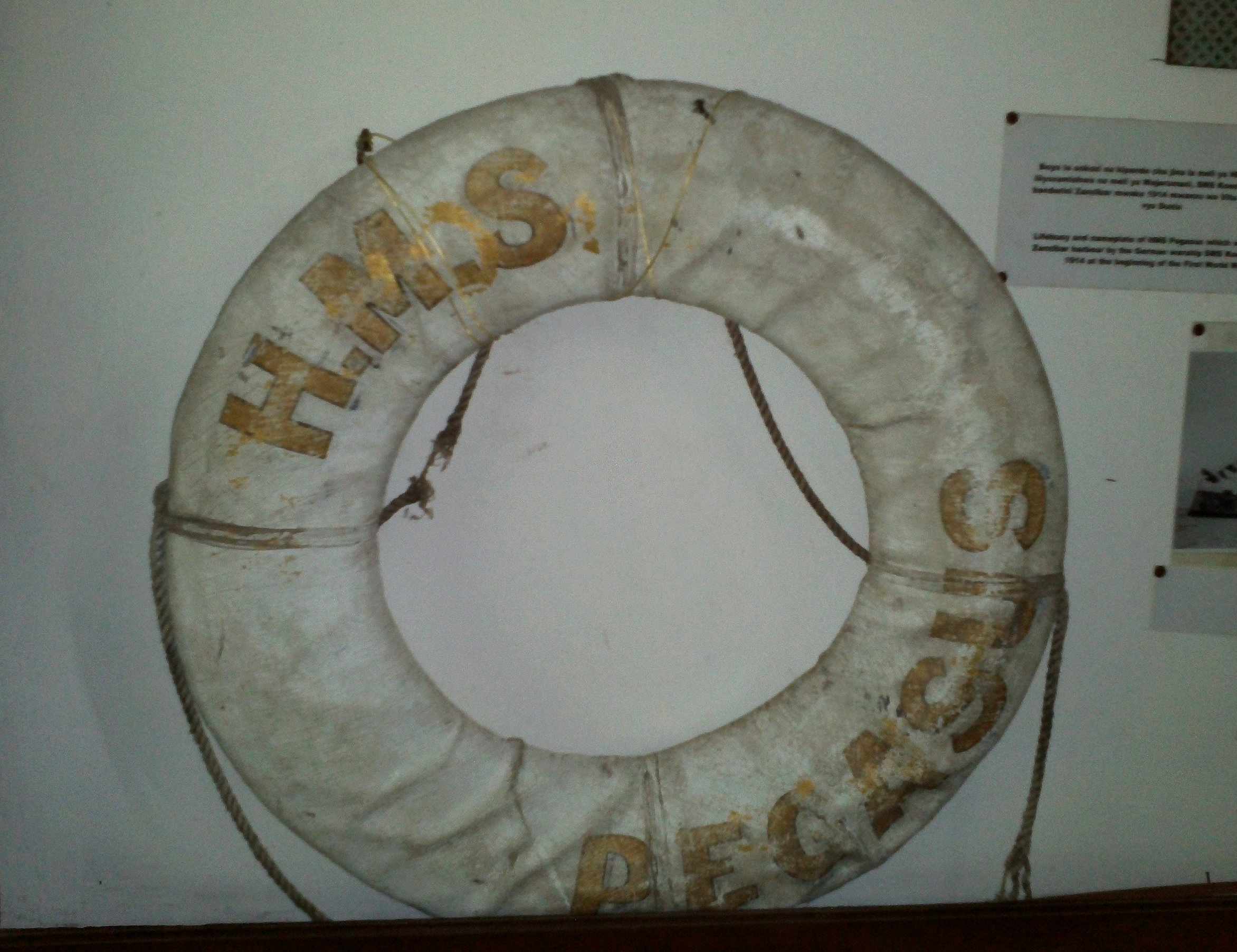 Life bouy from HMS Pegasus in Zanzibar Museum